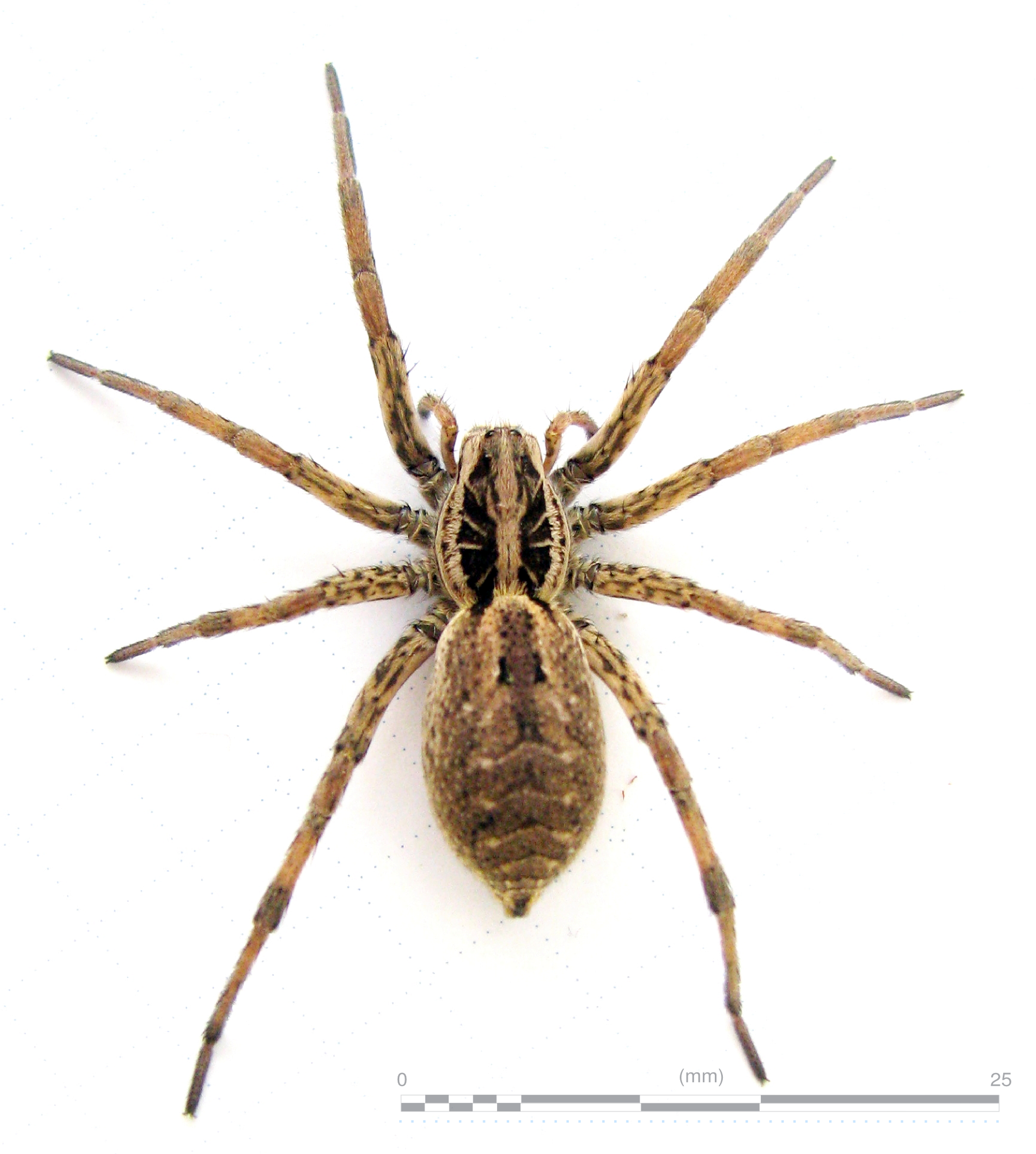 Specimen of a Hogna radiata, adult female, view from top. Location: took in the South West of France, Aquitaine. The Hogna radiata is present in South Europa (from the middle of France), north Africa and Central Asia (N. I. Platnick). This species is wandering, hunting smaller insects less than 20% of its own size. Found on grass, parks, and forests.